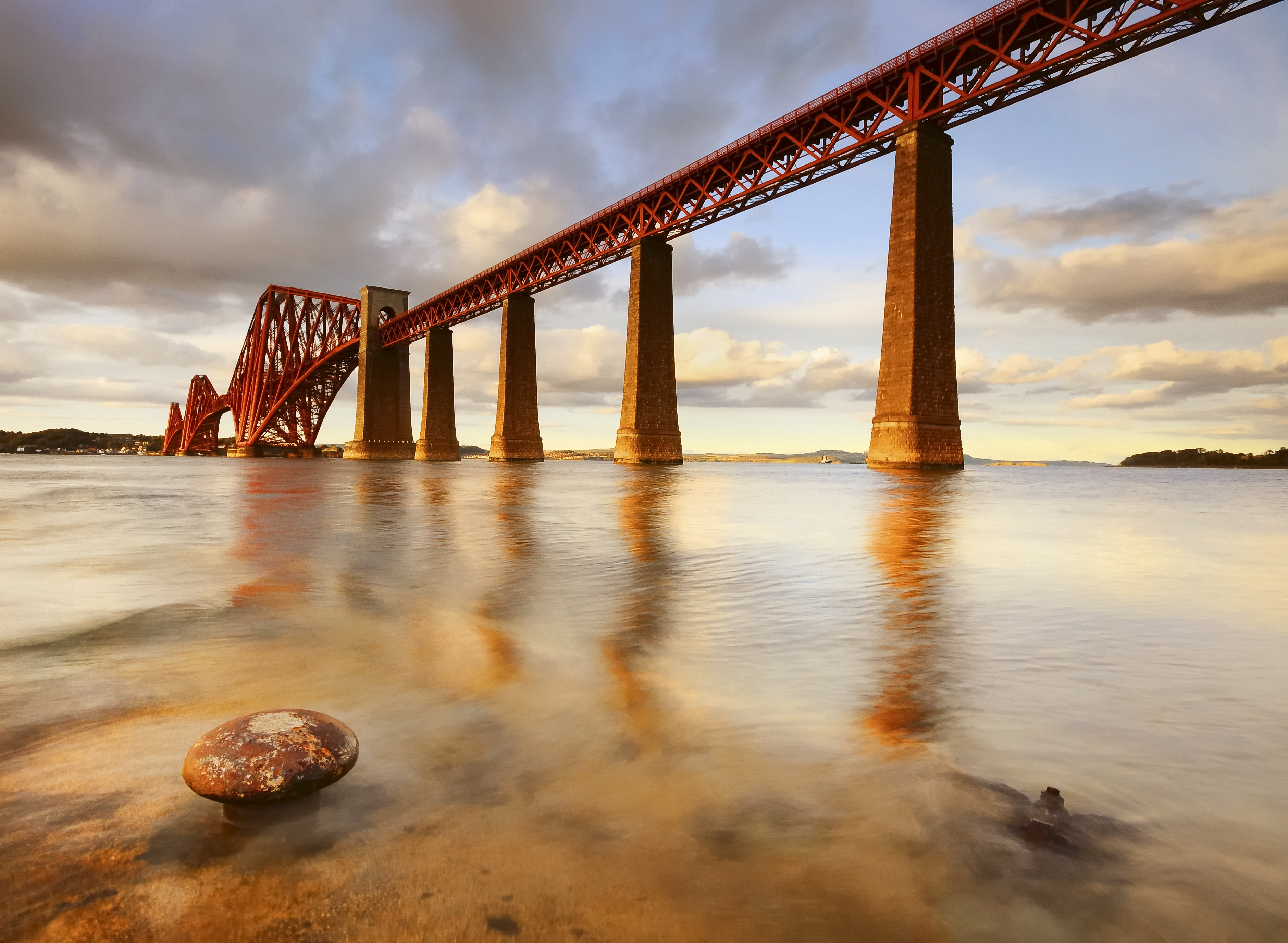 The Forth Bridge, in South Queensferry, near Edinburgh. The bridge has recently had a repaint lasting several years (resulting in large amounts of unsightly white scaffolding) and I wanted to capture it in all its glory on a lovely warm evening. Camera used was a Nikon D300 with a Sigma 10-20mm F4-5.6 lens and filters used were Lee ND hard grad 0.3 and 0.6.